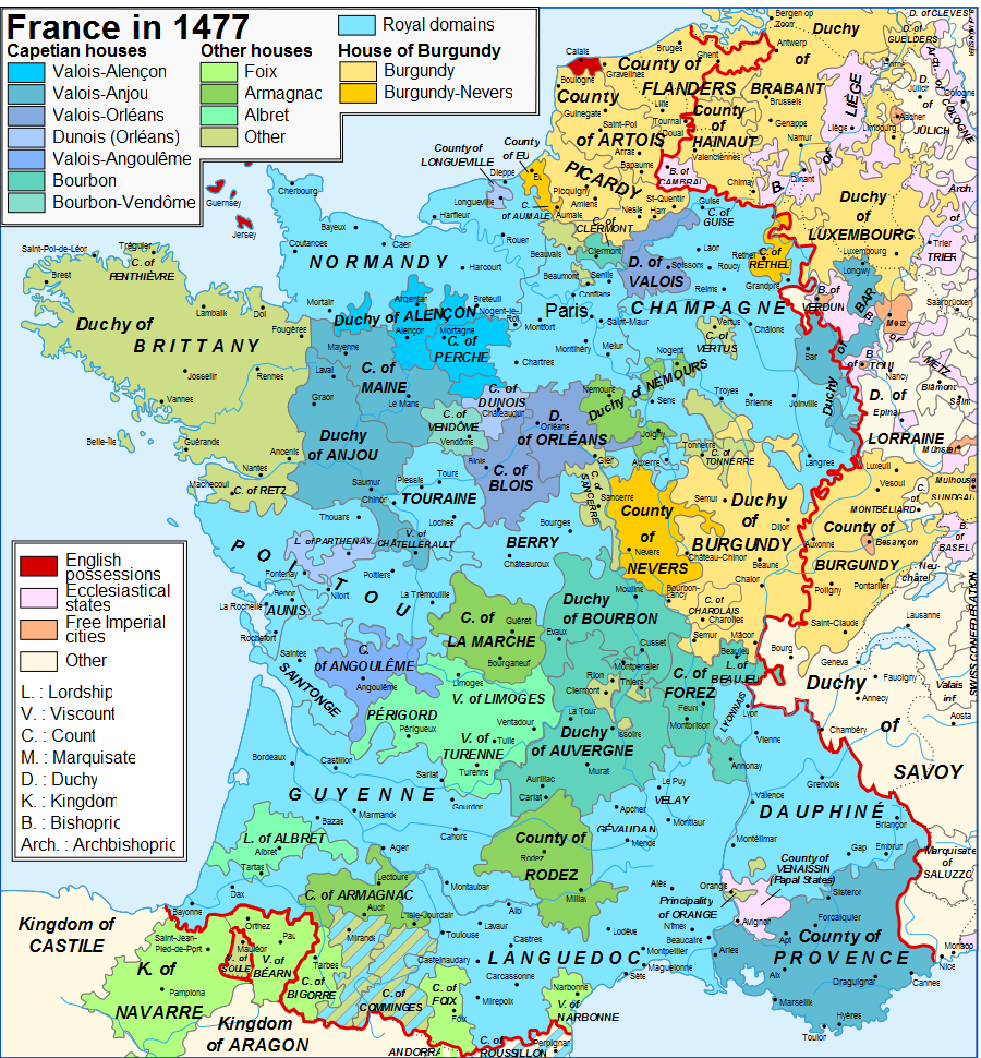 Conspicuous inaccuracy: Béarn did not pay homage to the French crown, it was a sovereign principality